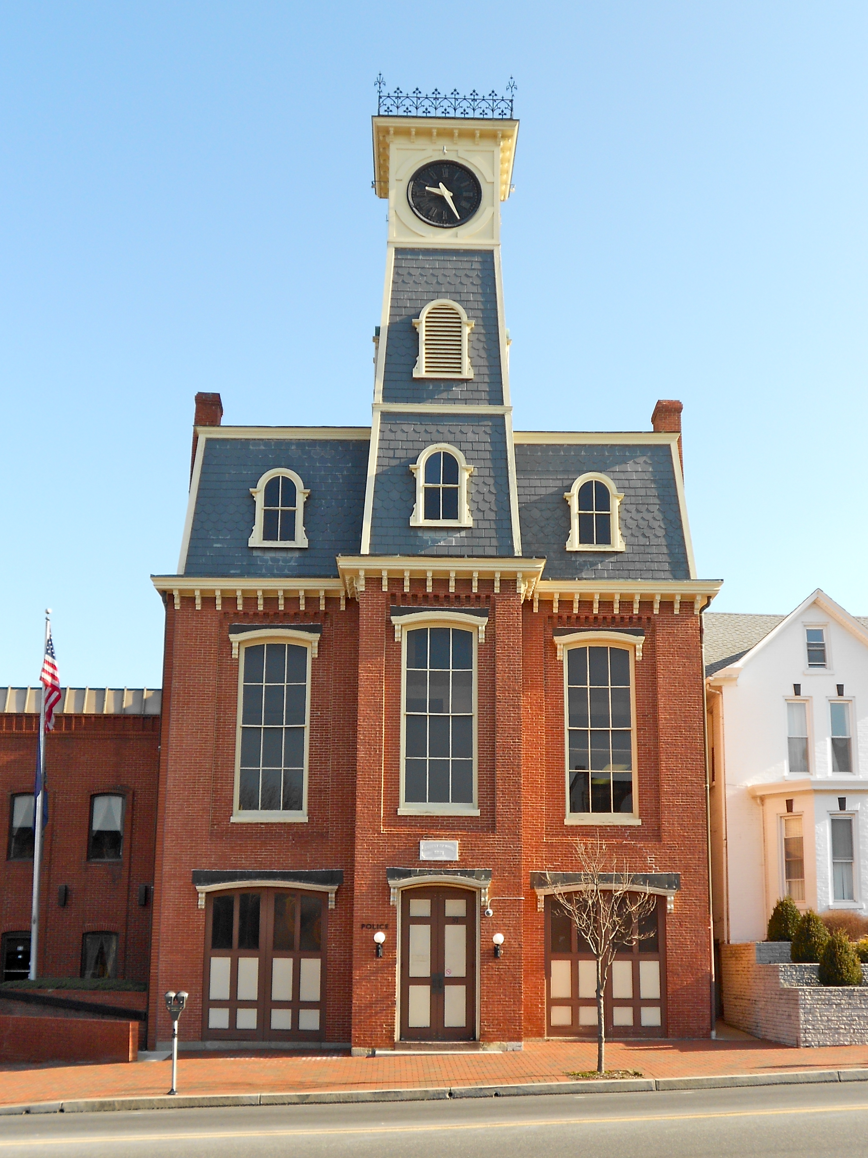 Borough Hall of the Borough of Waynesboro on the NRHP since December 2, 1980. At 57 East Main Street, Waynesboro, Franklin County, Pennsylvania.